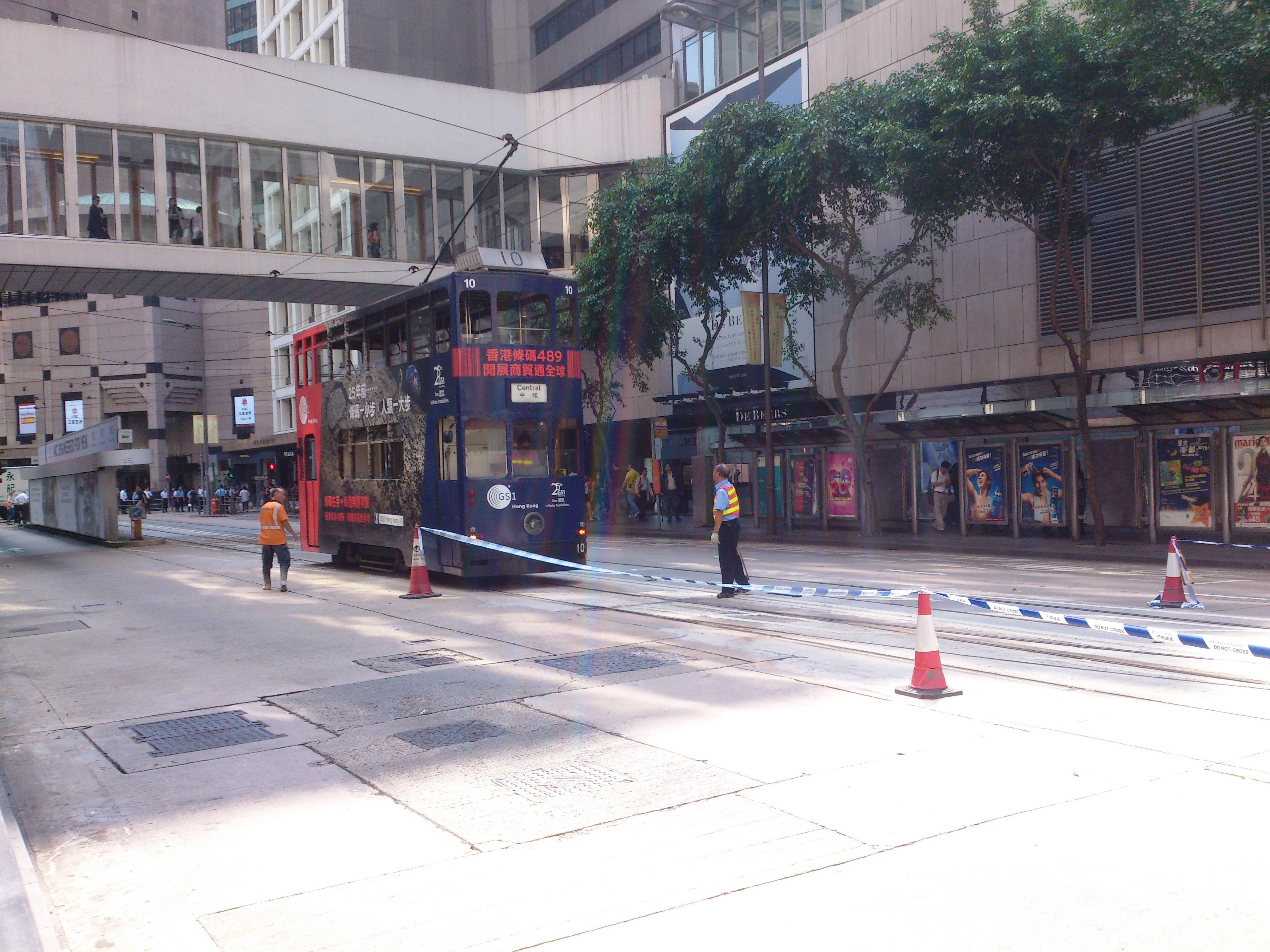 中文（香港）: Temporary Tram Terminus in Central on 2014-10-13